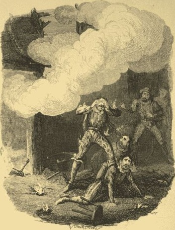 The Explosion at Holbeach. Made by George Cruikshank (1792-1878).